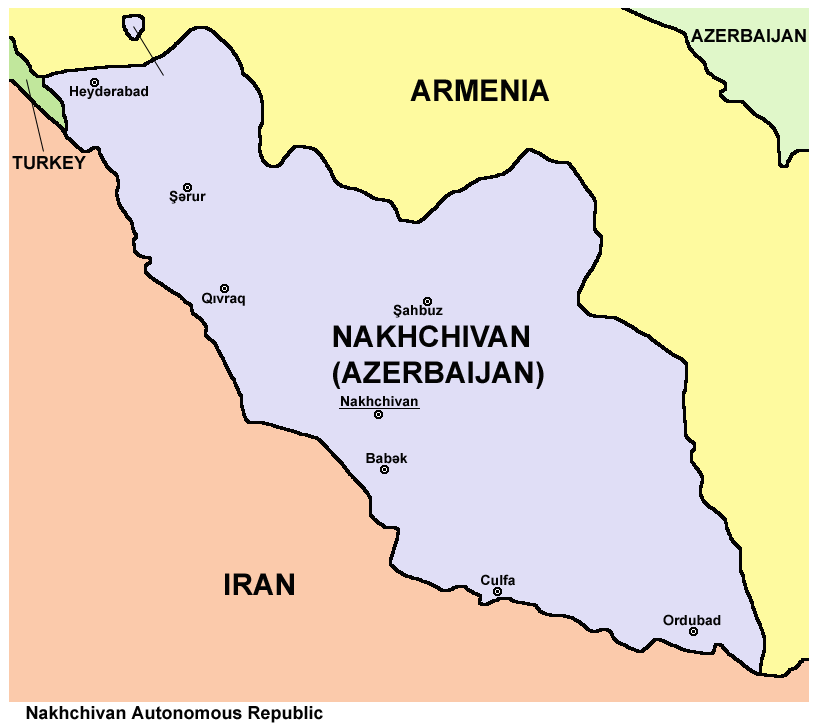 Nakhichevan (Nakhchivan) Autonomous Republic map.